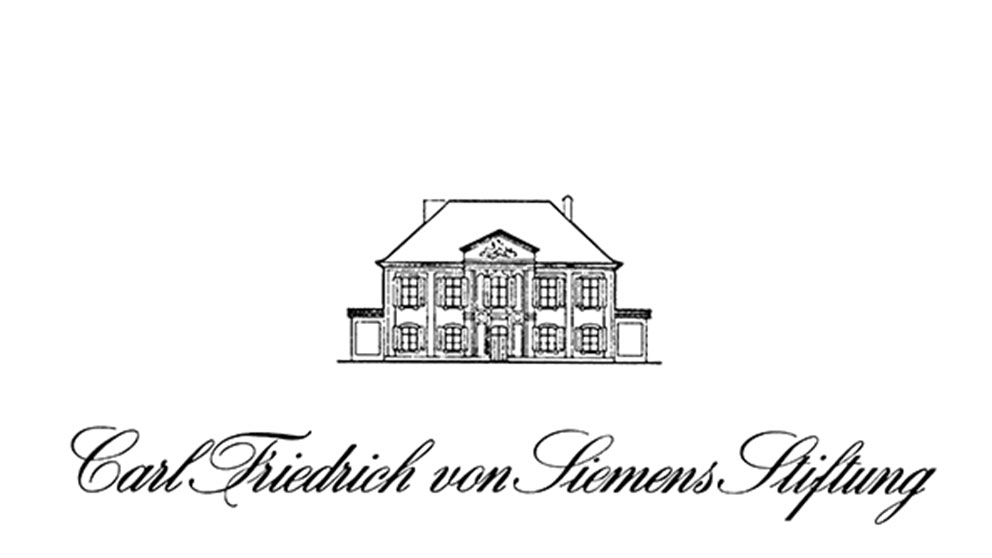 Logo of Carl Friedrich von Siemens Stiftung